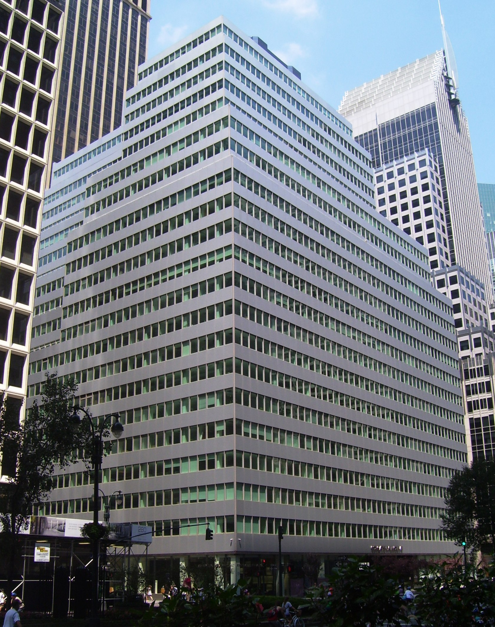 The Colgate-Palmolive Building at 300 Park Avenue between East 49th and 50th Streets in Midtown Manhattan, New York City was completed in 1955 and was designed by Emery Roth & Sons in the International style. The building has 25 stories and is 328 feet tall. (Source: [1])